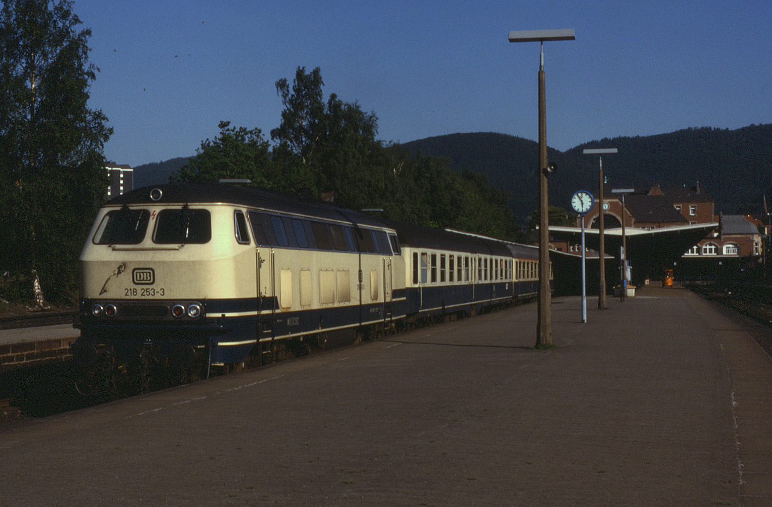 218.253 is seen at Bad Harzburg on 23 May 1989.